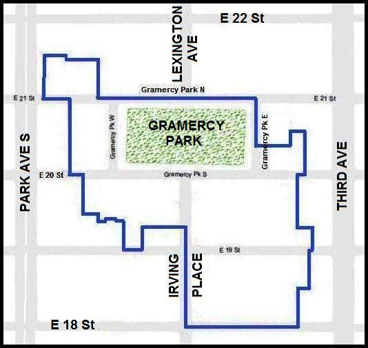 Map of the Gramercy Park Historic District in Manhattan, New York City